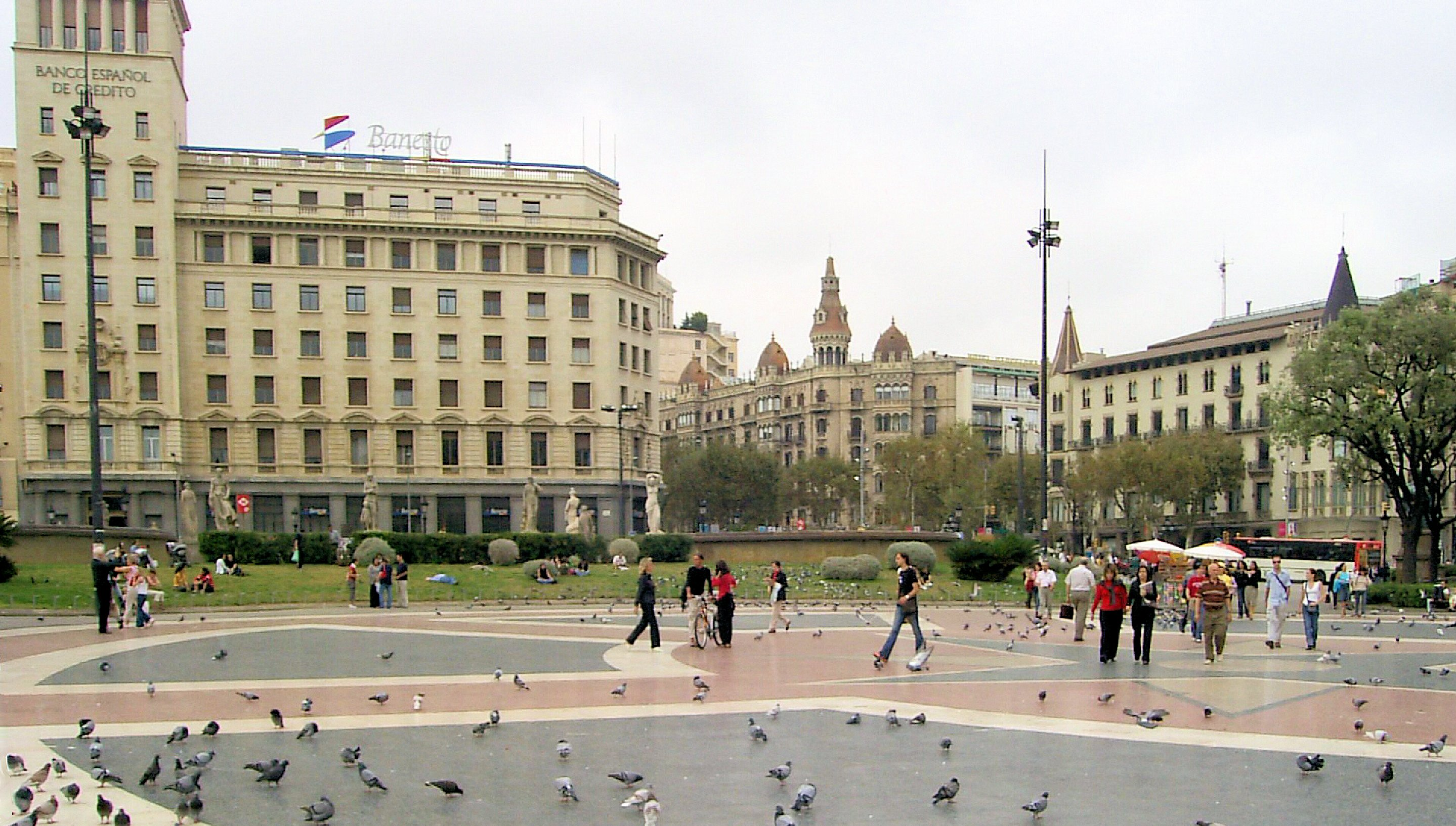 Plaça de Catalunya, Barcelona, Catalonia, Spain